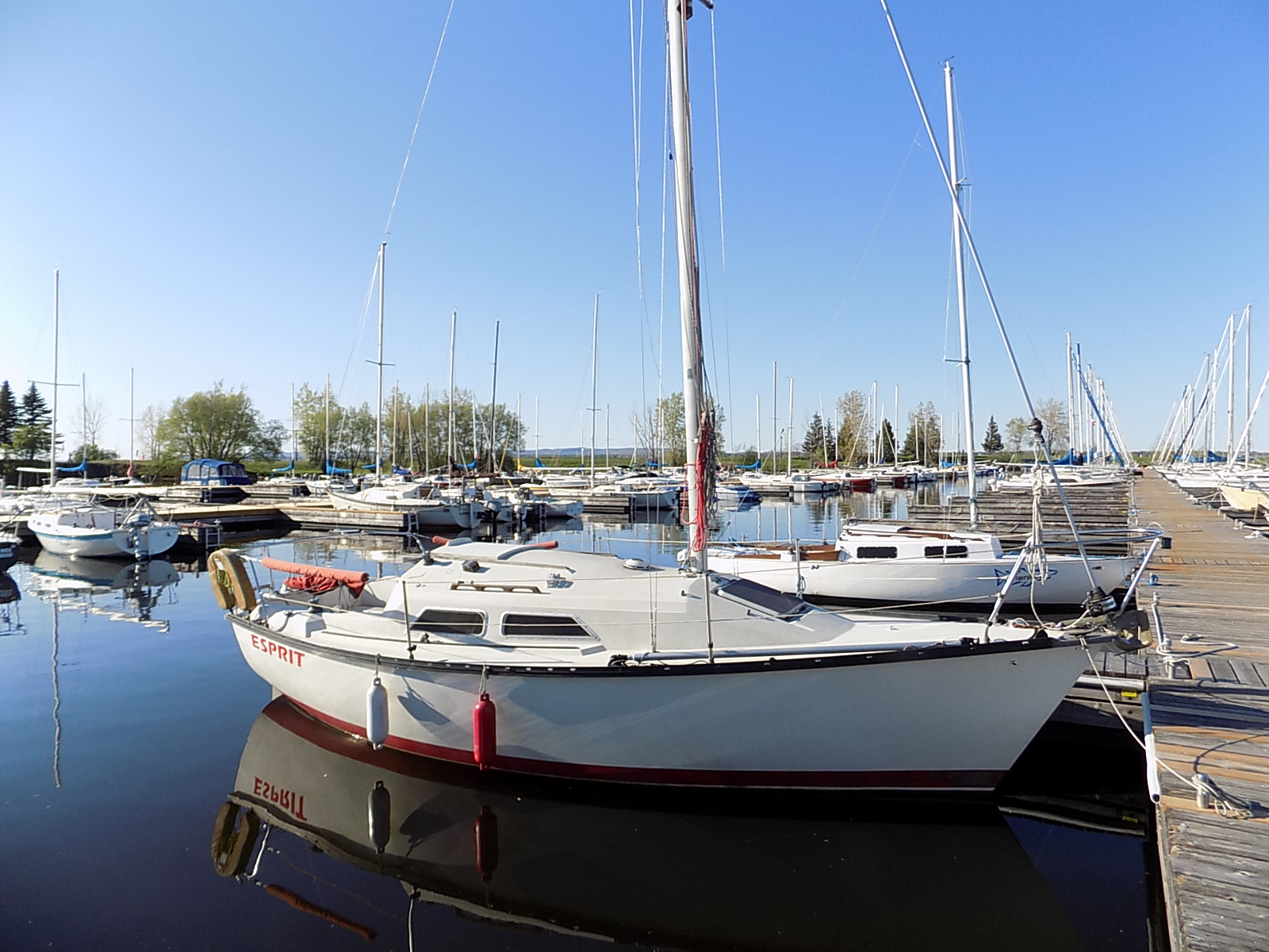 A Mirage 25 sailboat named Esprit.